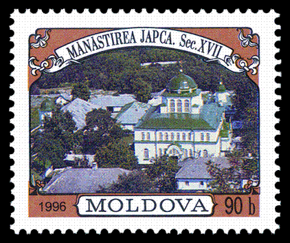 Stamp of Moldova. The Japca Monastery, situated on the shore of Nistru River at the distance of 10 km from Camenca town, is the only monastery from Basarabia which was never closed by the Soviet authorities. The rocks above the monastery, but especially above the old hermitage, the Nistru windings, which can be seen from far away, the gardens that surrounds it, makes up the special beauty of the monastery.